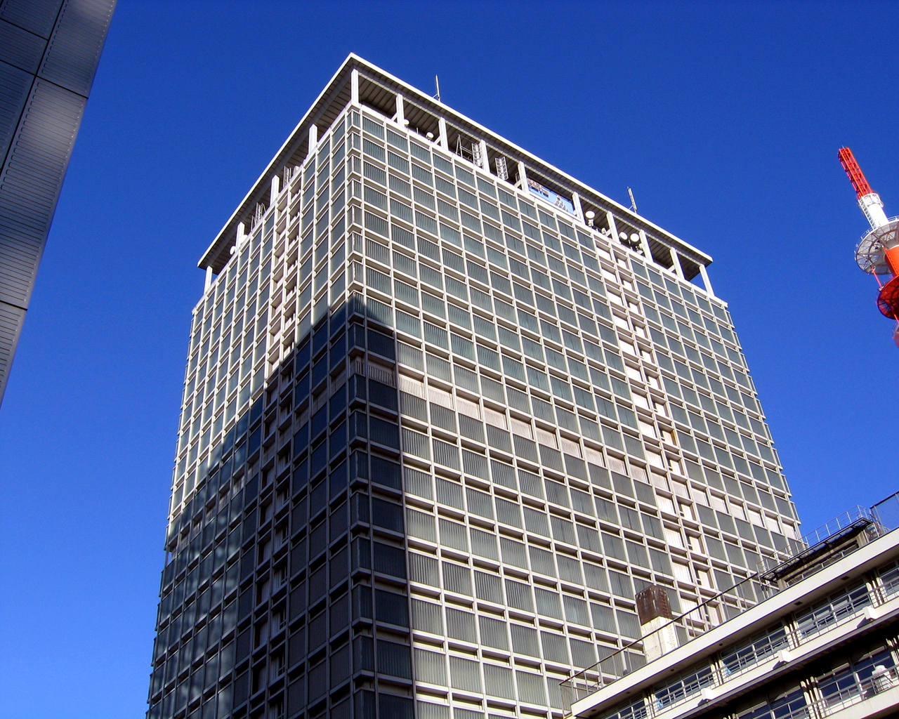 NTT DATA Kansai head office building.The whereabouts of this building is carried out to Osaka Dojima.